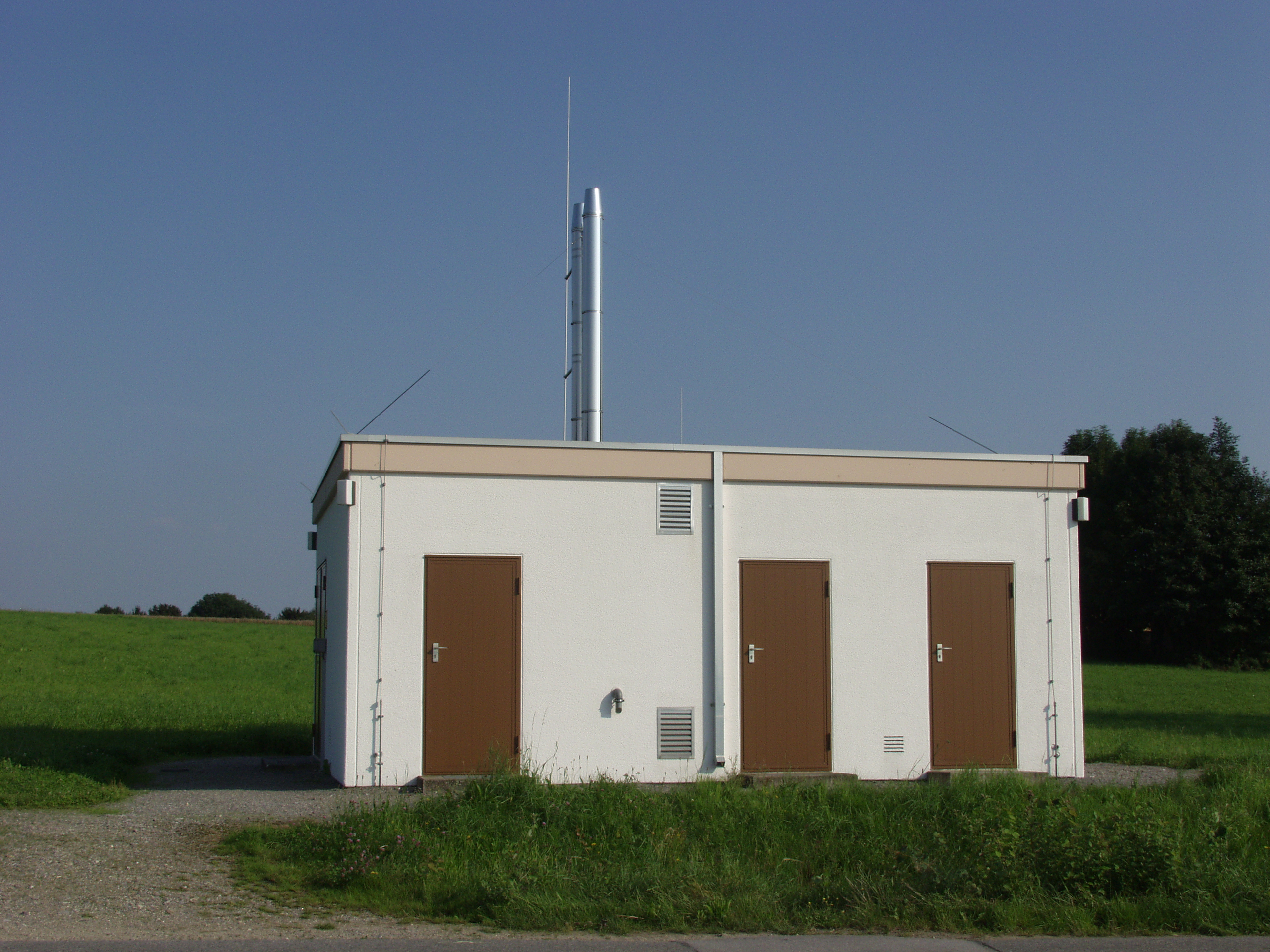 Gas Pipeline Metering Station of MEGAL close to Schwarzach (Straubing-Bogen)